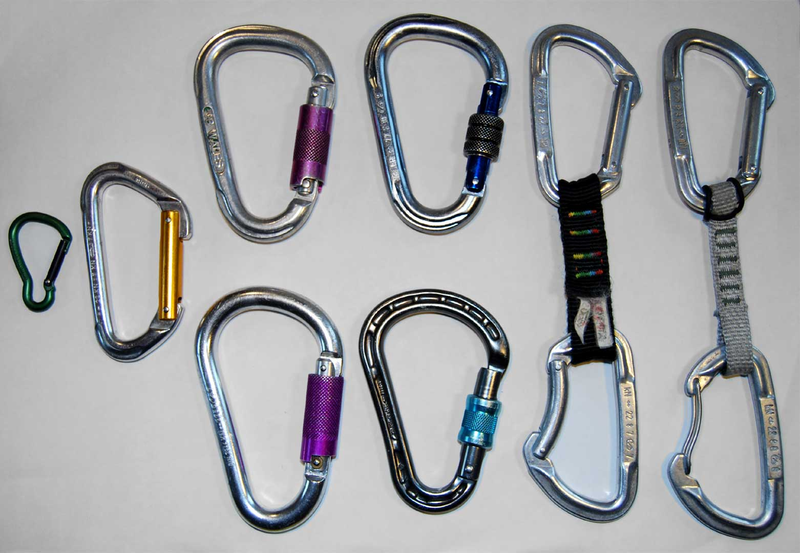 Various climbing carabiners